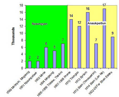 The Royal Burmese Army's mobilization per campaign in the early Nyaungyan Restoration period (1599-1628) -- Source: Hmannan Yazawin (The Glass Palace Chronicle) The figures are only those who were mobilized to the front; they do not include Palace Guards and Capital Guards who stayed behind. Minor campaigns and campaigns without an explicit mention of numbers are not included.